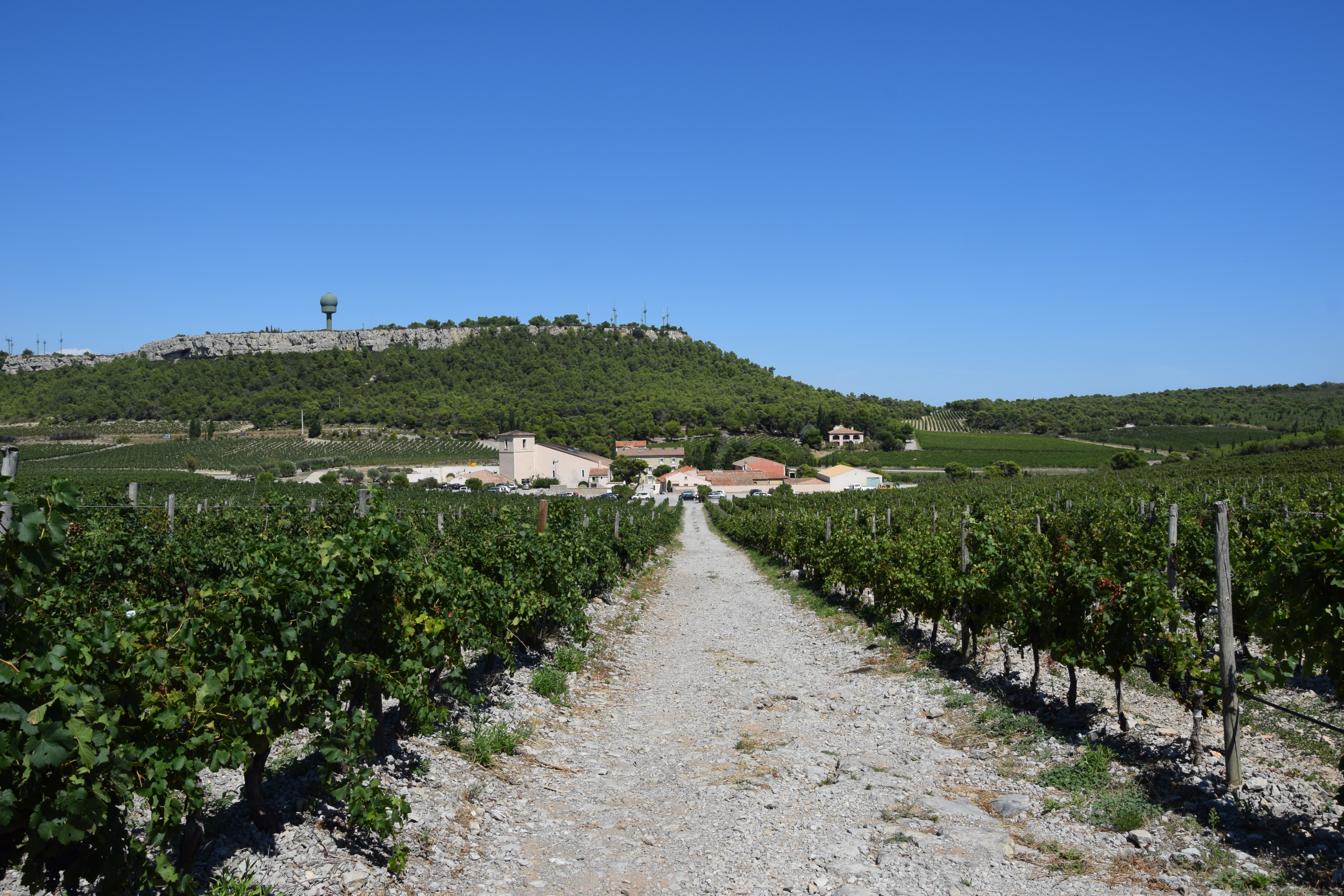 Vineyard in Massif de la Clape, south of France